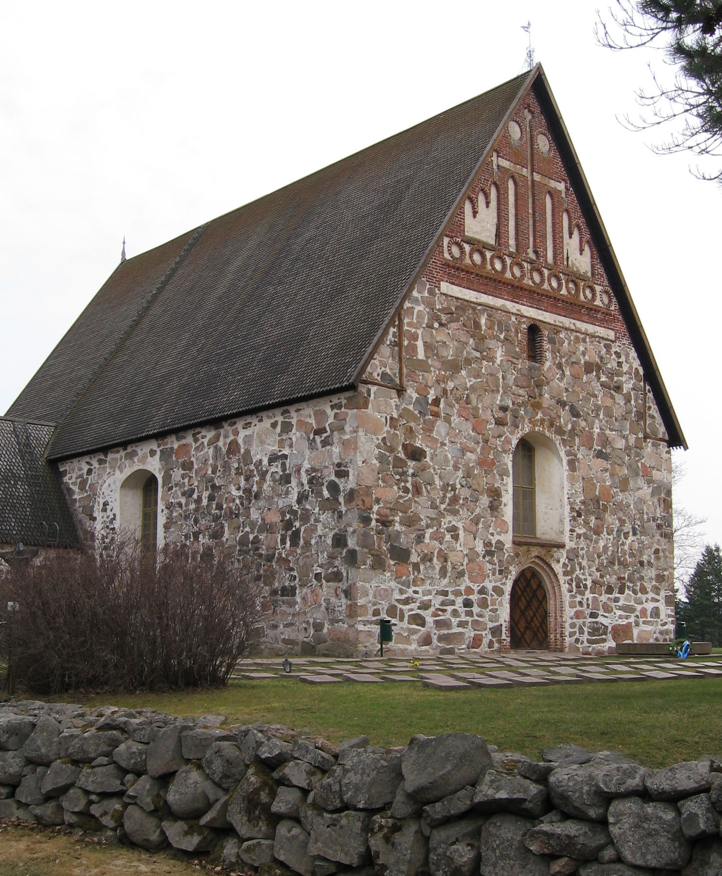 Old church of Sipoo